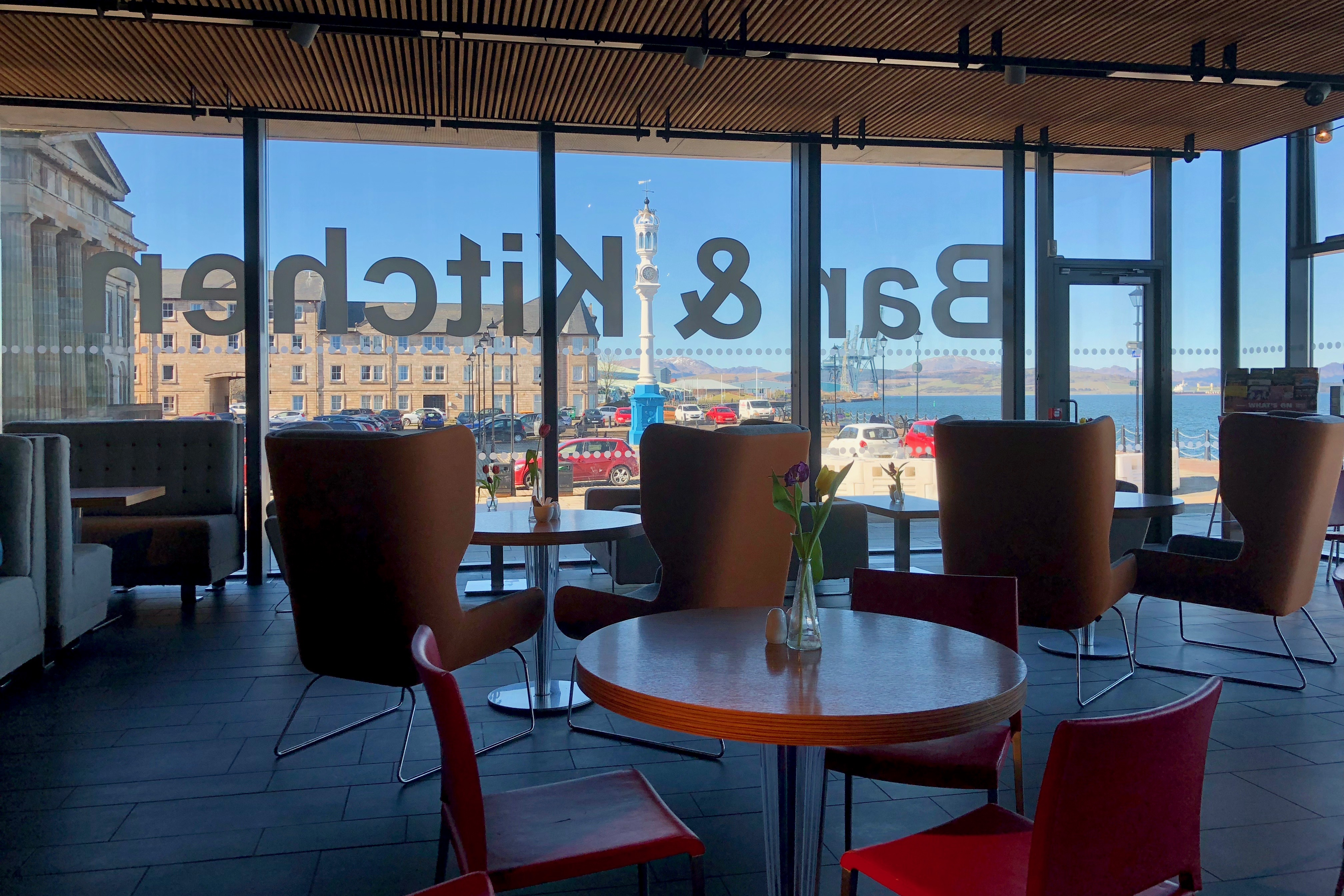 Bar + Kitchen café / restaurant at the Beacon Arts Centre, looking out onto Customhouse Quay in front of the Custom House at Greenock in Scotland. The central cast-iron clock tower and lantern, "The Beacon", was made in 1868 by Rankin & Blackmore Ltd to a design by Greenock artist William Clark.